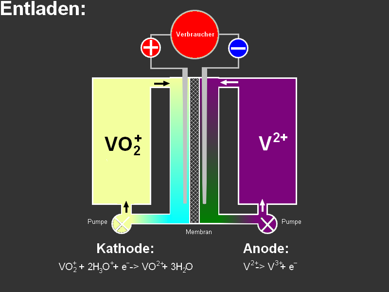 Scheme of a vanadium-redox-flow-cell during the discharging process